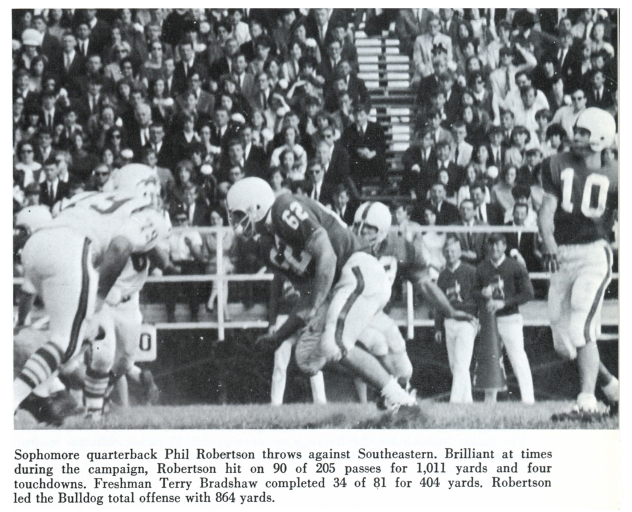 Louisiana Tech's quarterback Phil Robertson (10) throws against Southeastern Louisiana in Tech's only win in the 1966 season.